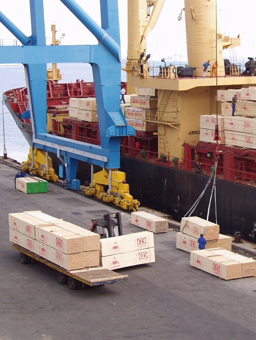 harbor_wood loading